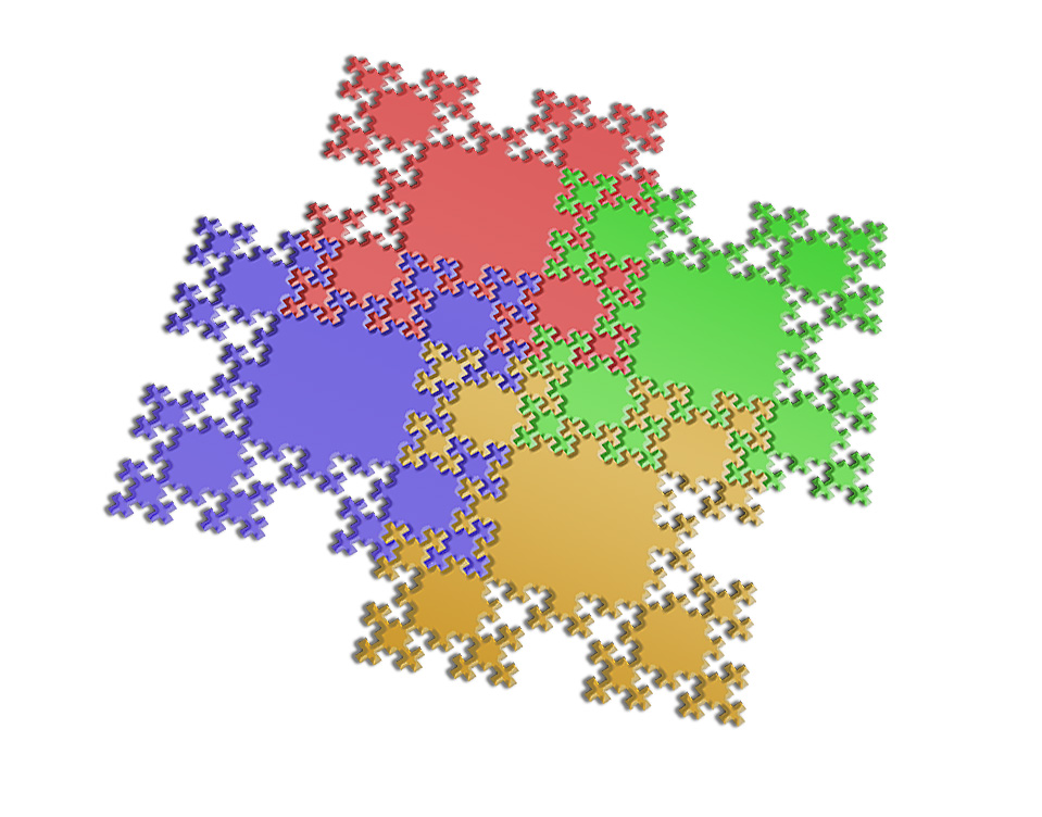 Tiling of the plane by Fibonacci tiles. The Fibonacci tile a double-square (Tiles the plane by translation, in two distinct ways) built from a variant of the Fibonacci word fractal (the "diagonal variant"). See "Christoffel and Fibonacci tiles" by Alexandre Blondin-Massé and The Fibonacci Word Fractal